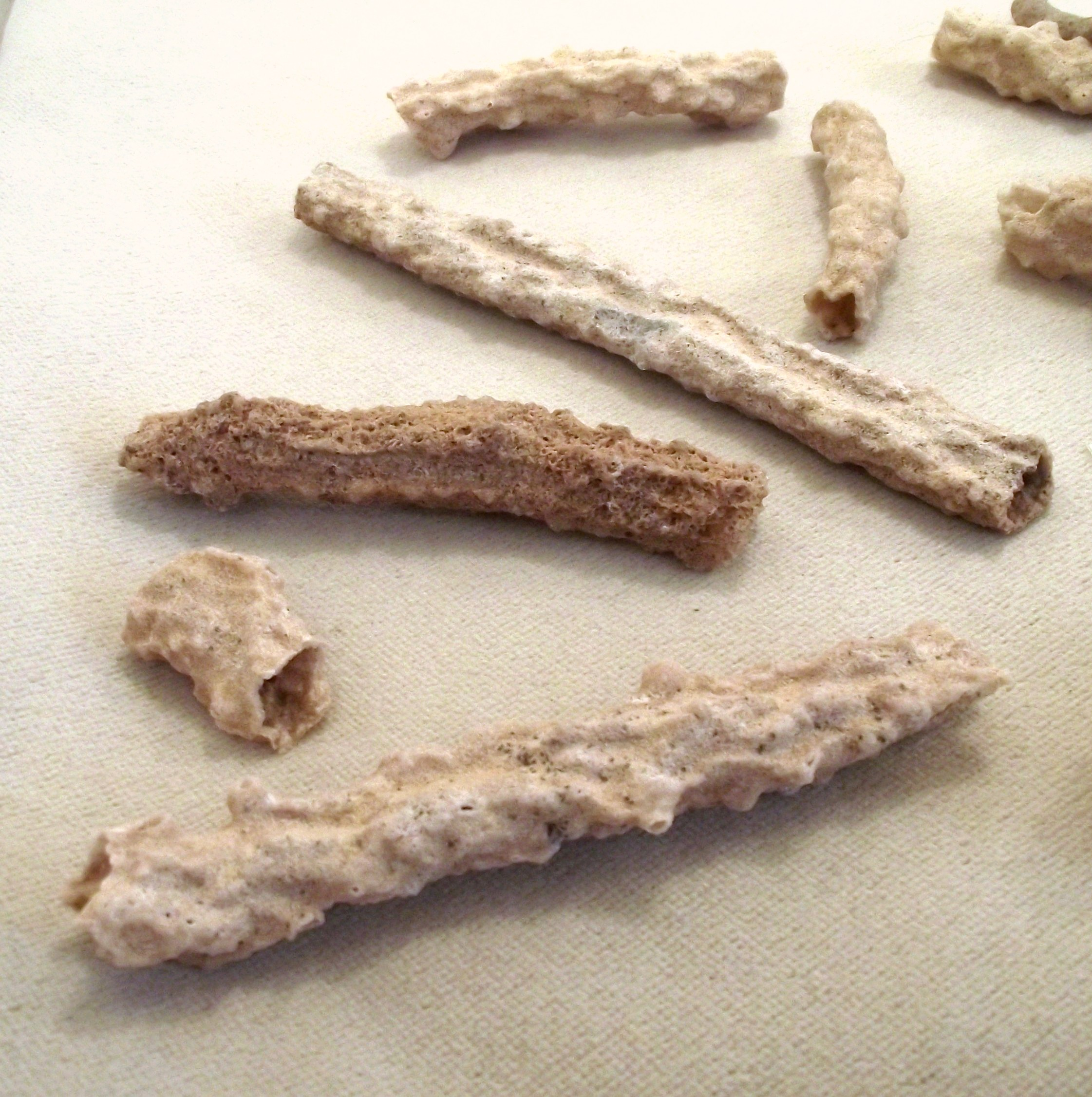 Sand fulgurites from Algeria. On display at the San Diego County Fair, California, USA.